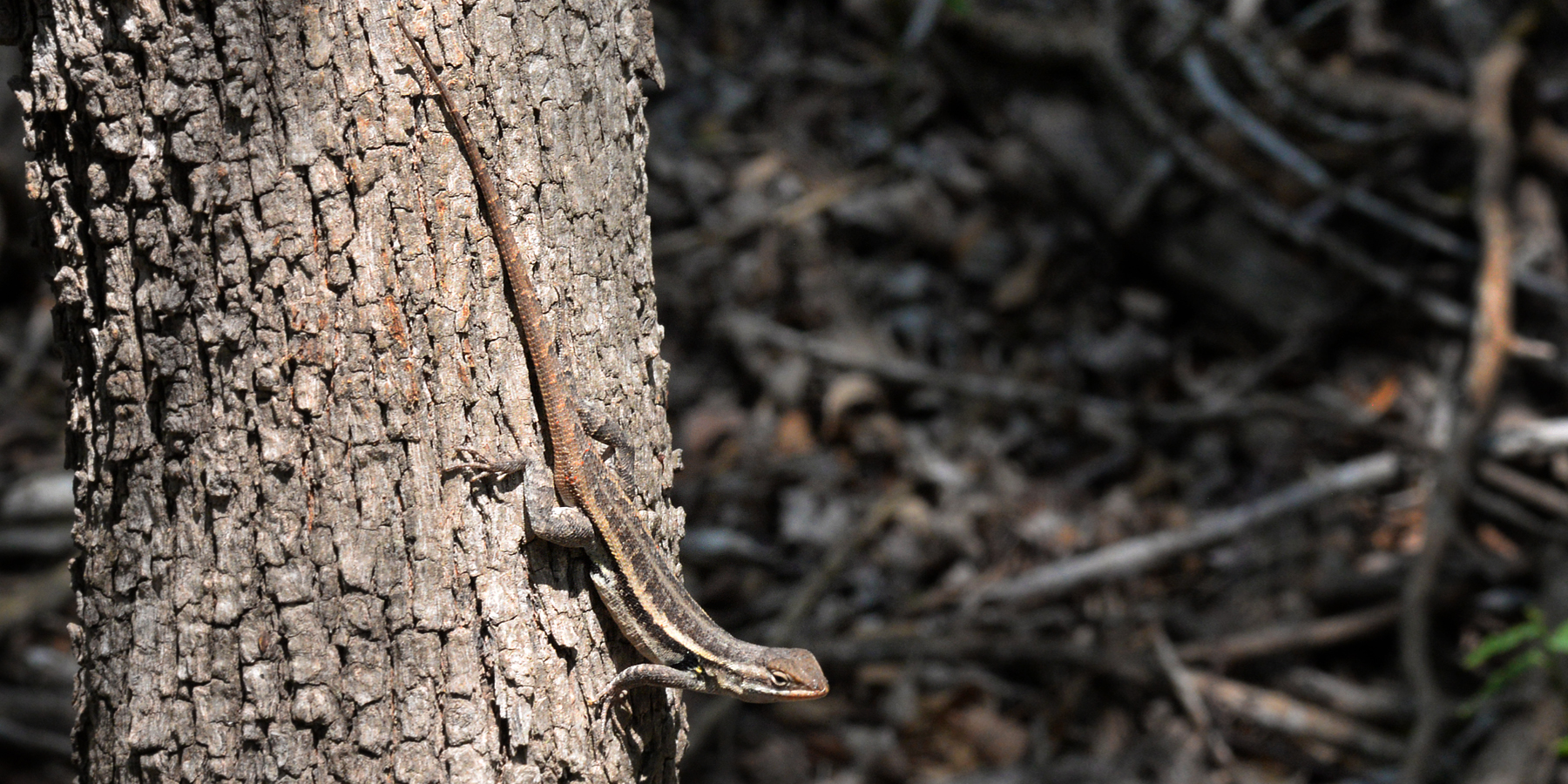 Northern Rose-bellied Lizard (Sceloporus variabilis marmoratus), photographed in situ, Santa Ana National Wildlife Refuge, Hidalgo County, Texas, USA. Photographed on 14 April 2016 by William L. Farr.